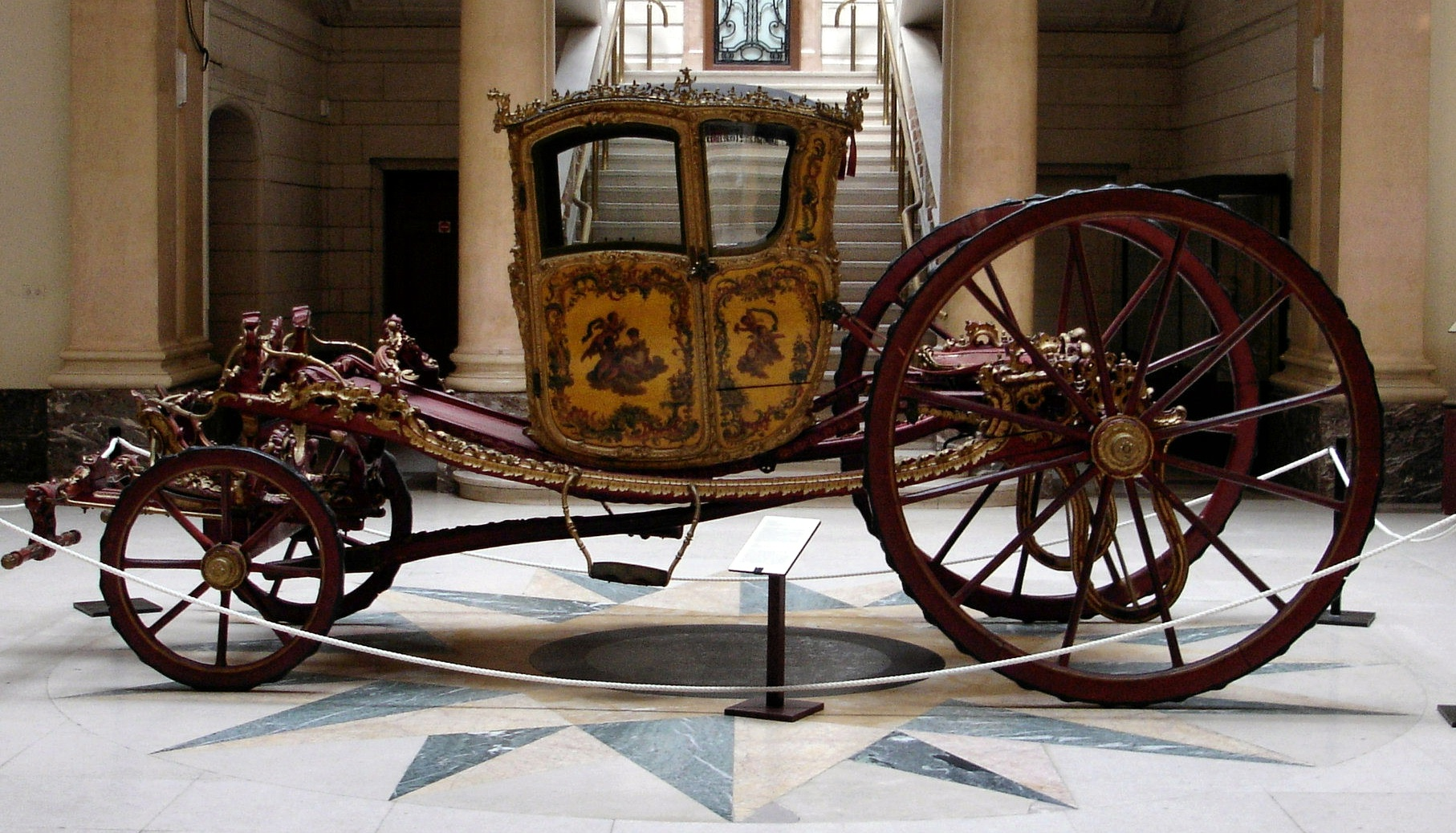 own work, gala coupé XVIIIth century, art museum, cinqantenaire Carolus 08:33, 26 January 2007 (UTC)